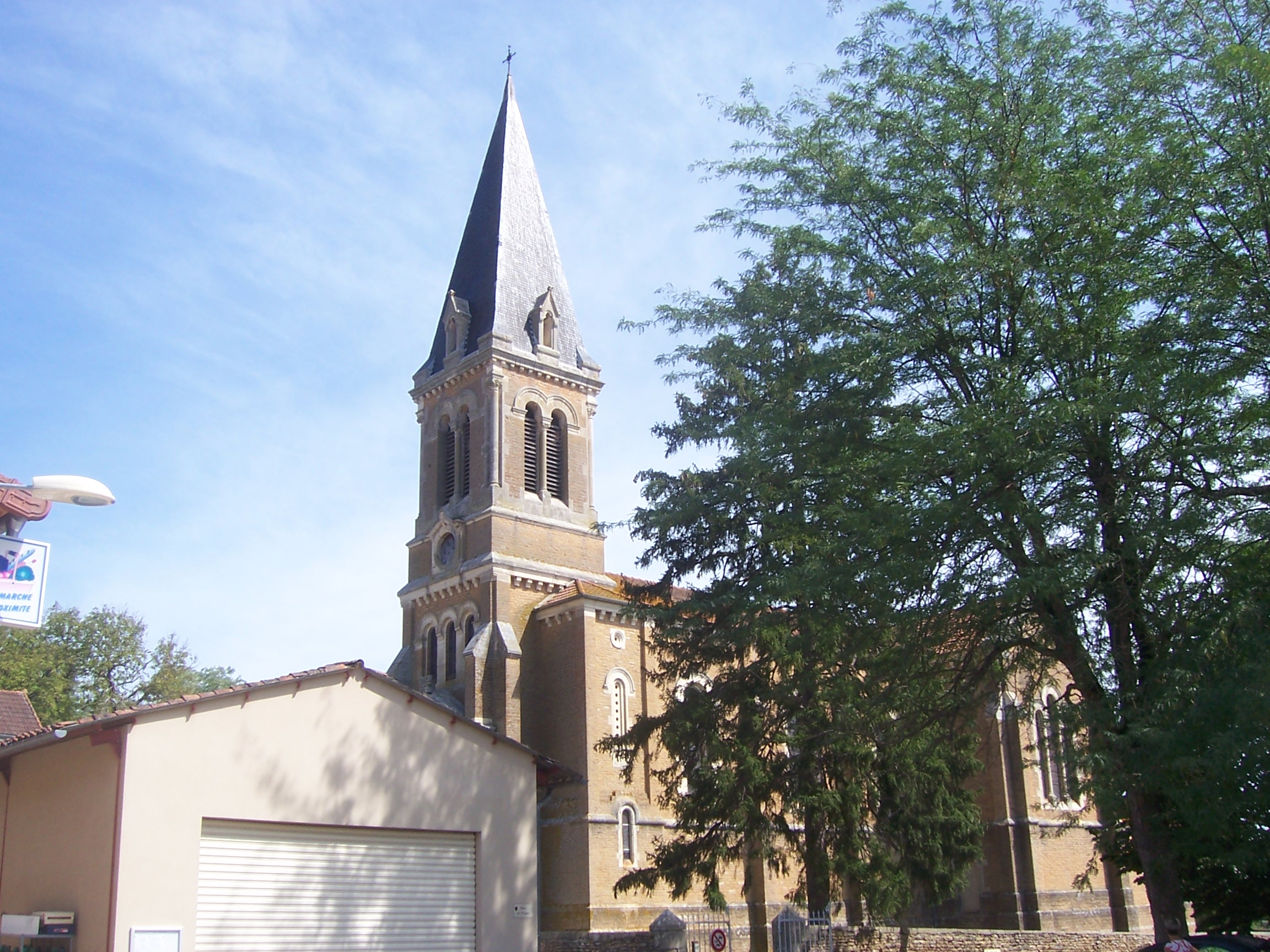 Church in Bonnay village.